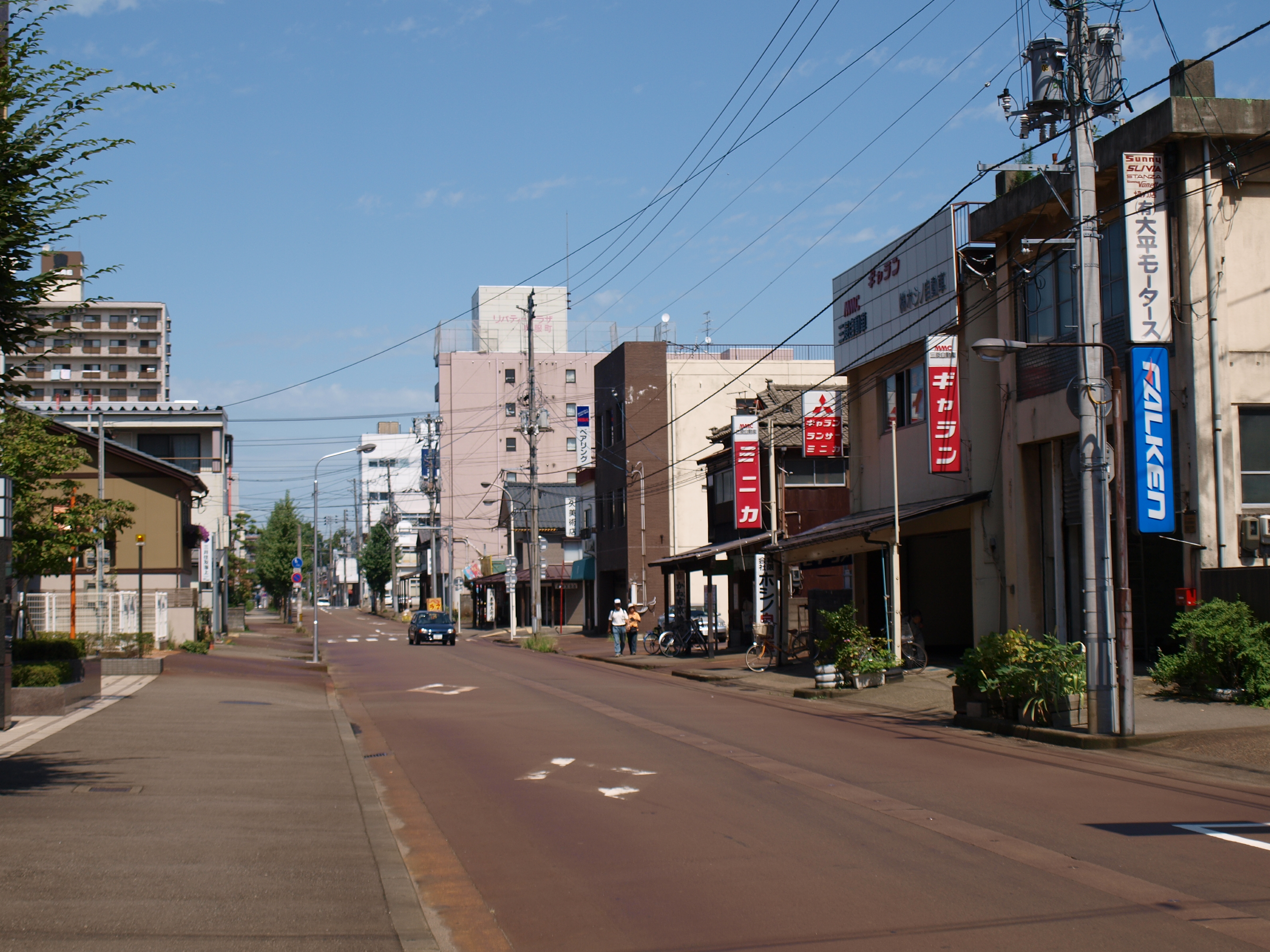 Brown road by groundwater of snow melting pipe in Nagaoka City